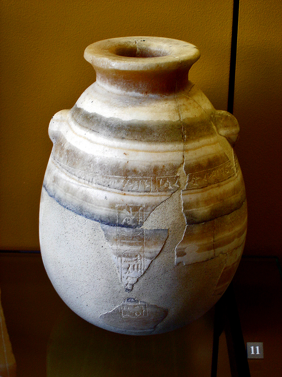 Alabaster vase inscribed in the year 2 of Xerxes I as pharaoh of Egypt. Louvre Museum Sb 561.